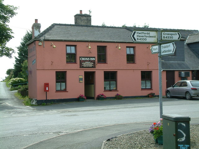 Cross Inn at Hayscastle Cross, Pembrokeshire